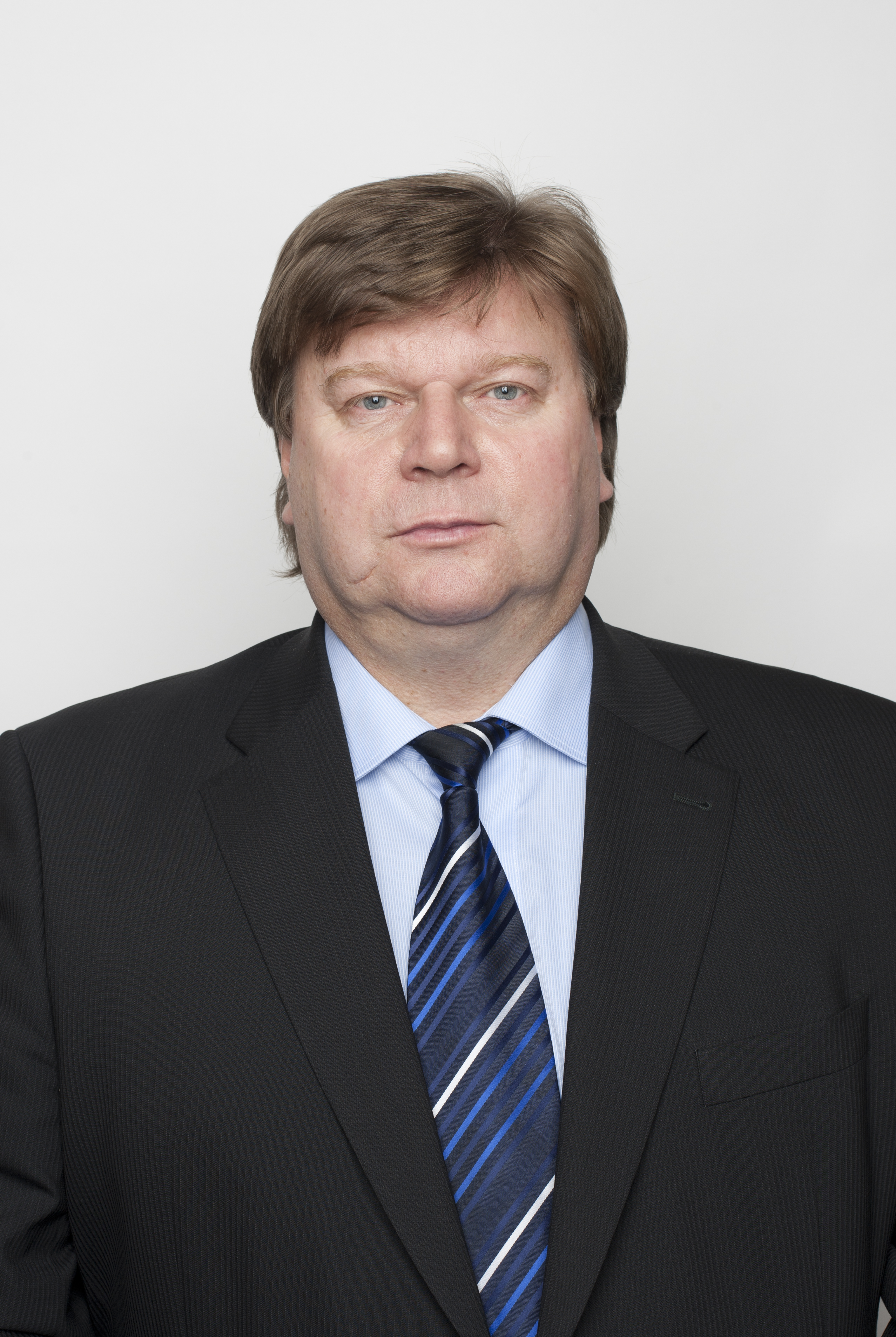 Mgr. Luděk Jeništa, from 2012 member of the Senate of the Parliament of the Czech Republic